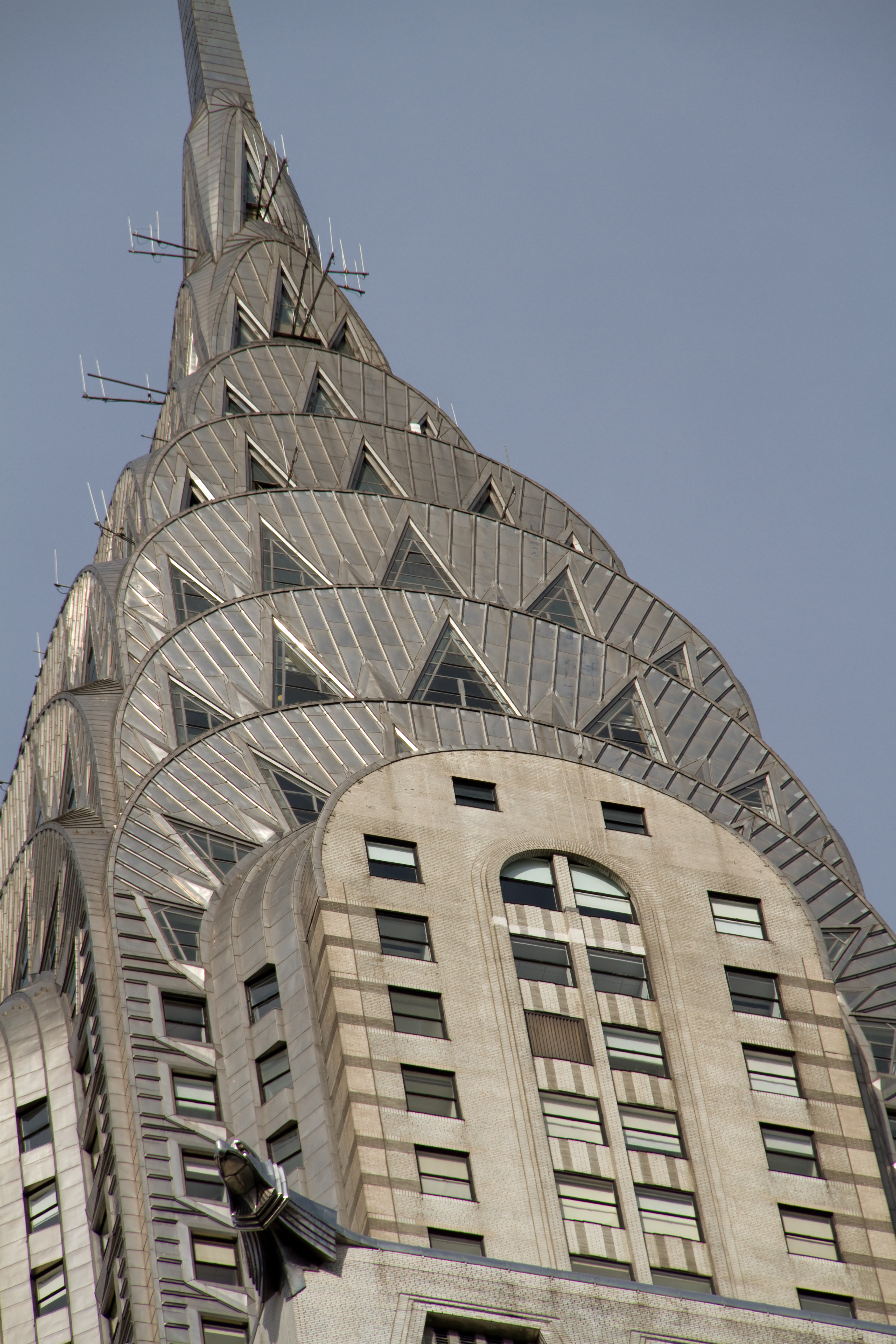 Chrysler Building 1a